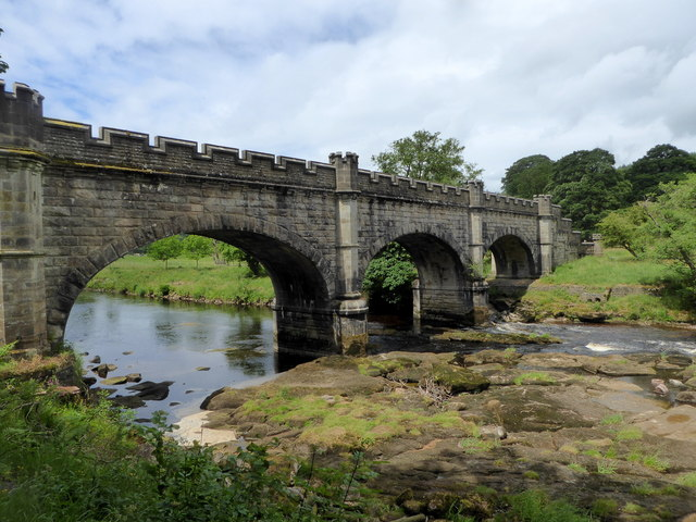 Aqueduct spanning the River Wharfe